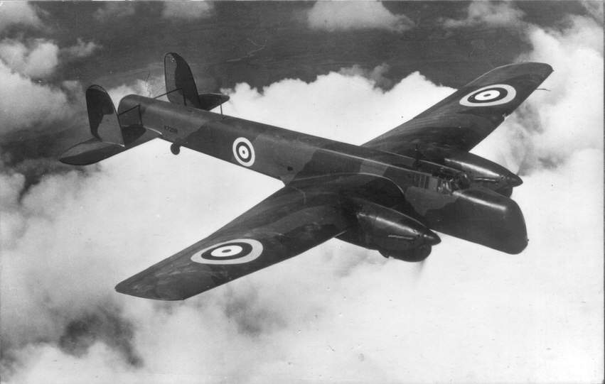 A Royal Air Force Armstrong Whitworth Whitley Mk.I bomber (serial K7208) in flight, circa 1938. Its machine gun positions have been faired over.